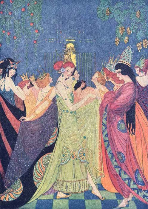 Elenore Abbott, The Shoes that Were Danced to Pieces. Grimm's Fairy Tales. New York: Charles Scribner's Sons, 1920.